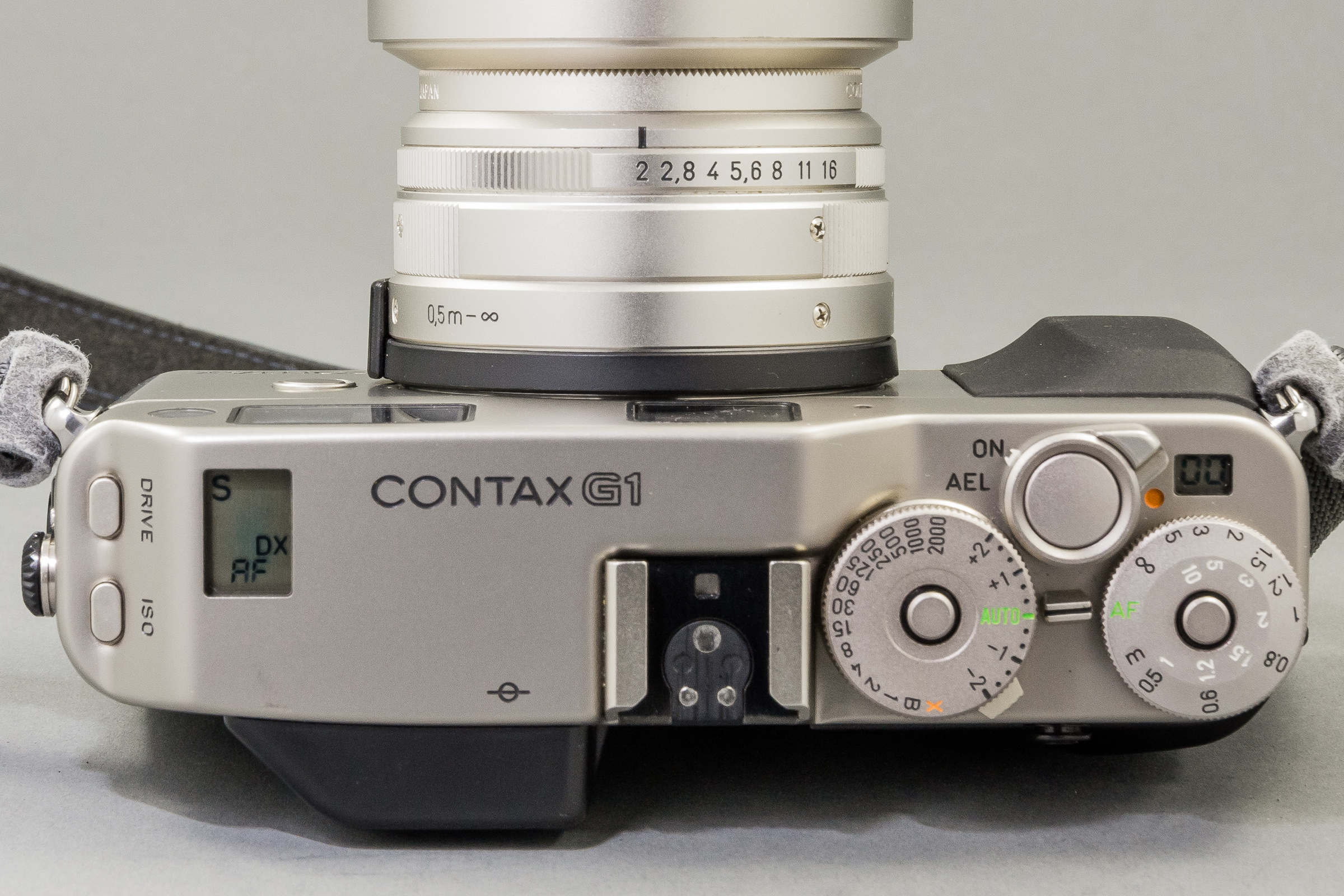 Top view of controls on Contax G1 35mm rangefinder camera